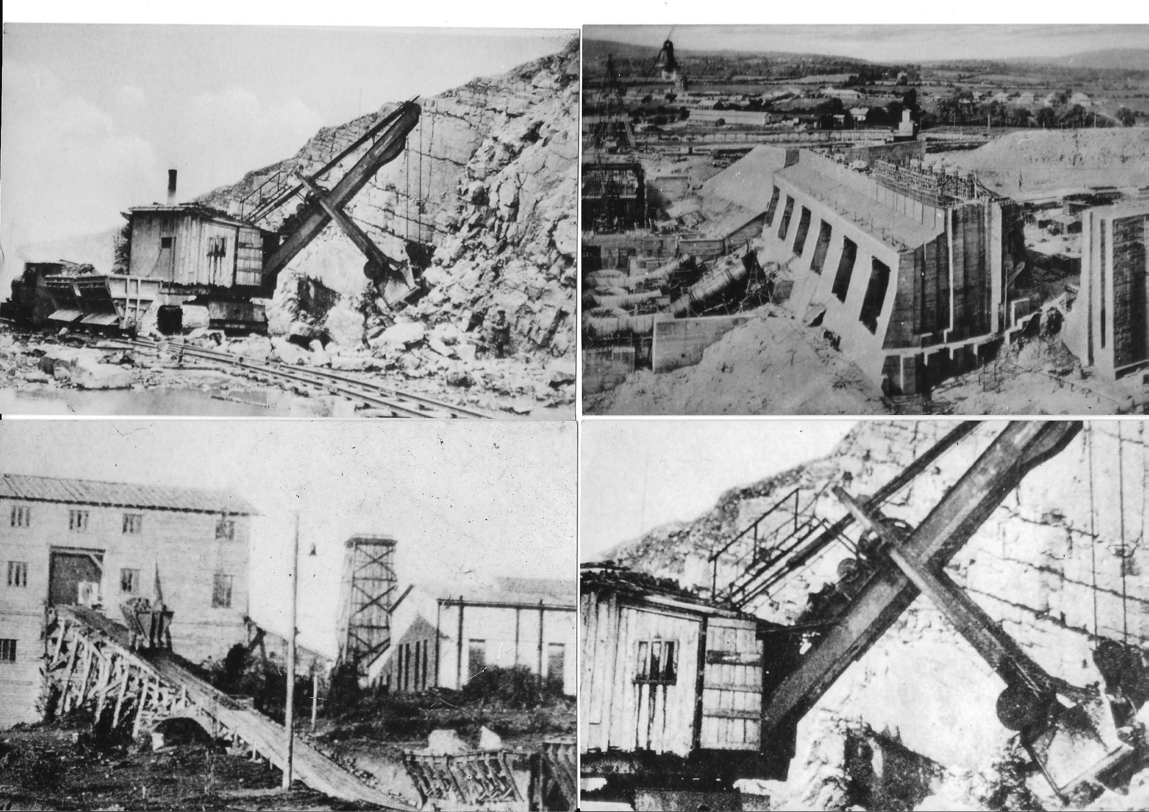 Construction of the main dam and canal